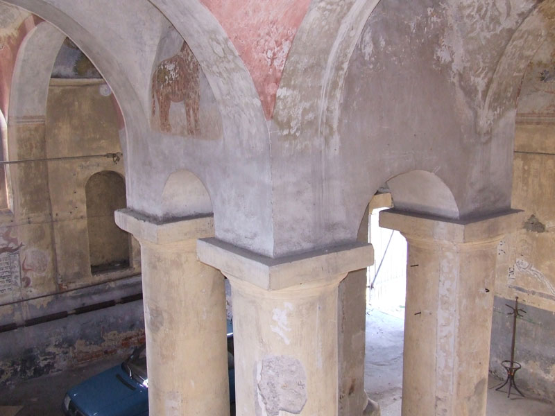 Synagogue in Bychawa